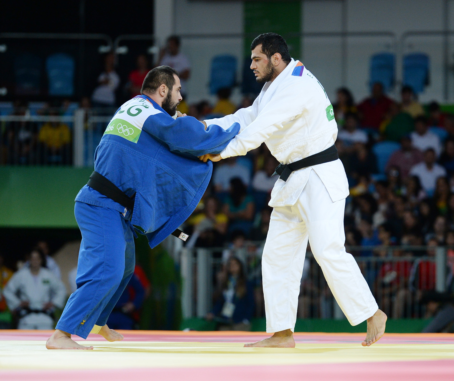 Judo at the 2016 Summer Olympics, Gasimov vs Bouyacoub